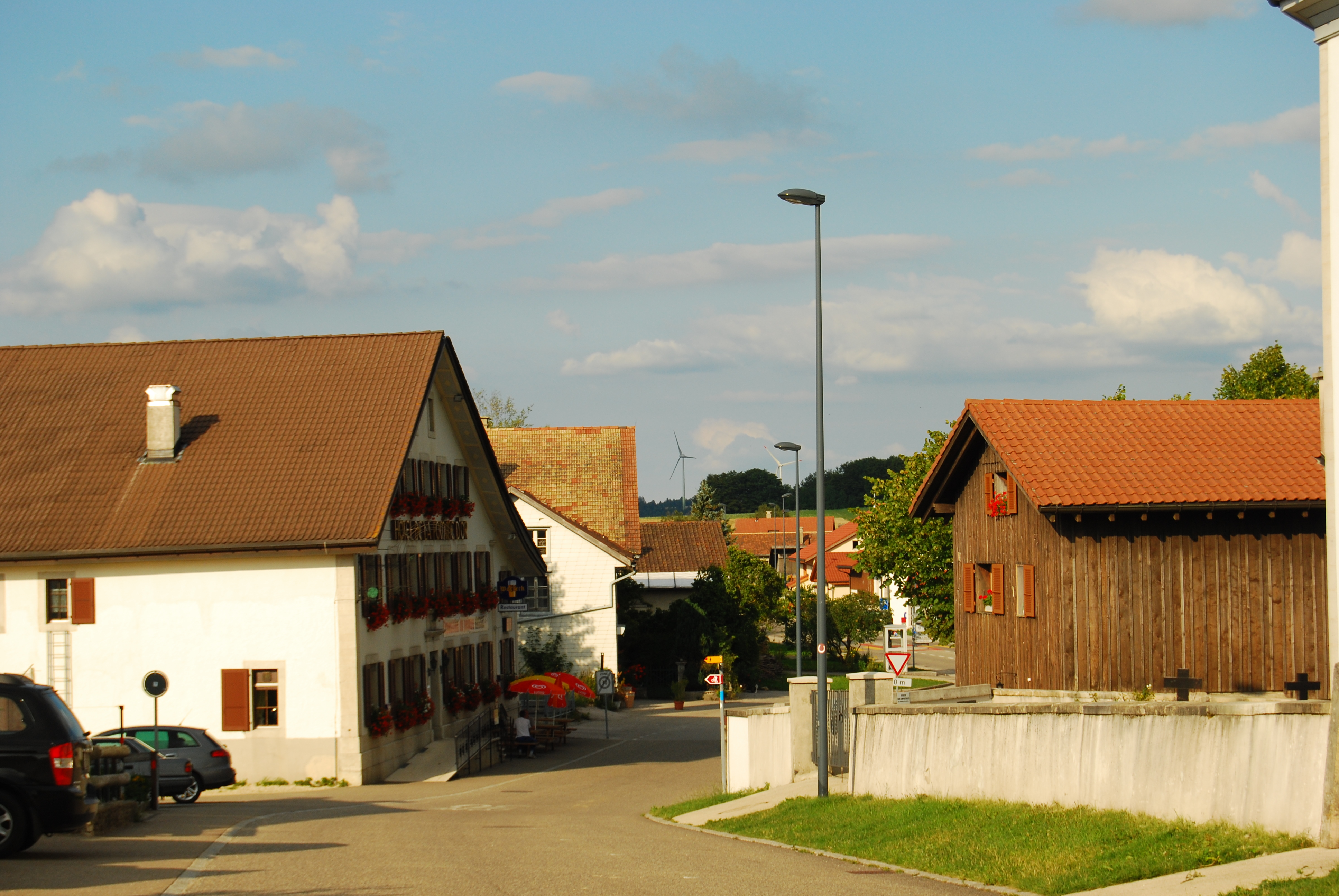 Montfaucon, canton of Jura, SwitzerlandEsperanto: Montfaucon, Kantono Ĵuraso, Svislando